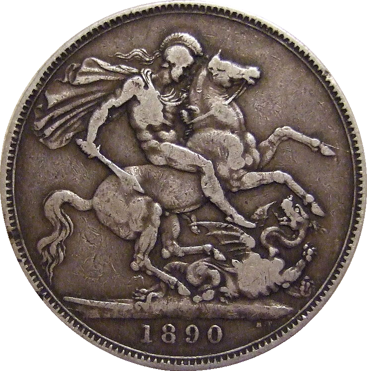 Reverse of the 1890 British crown.